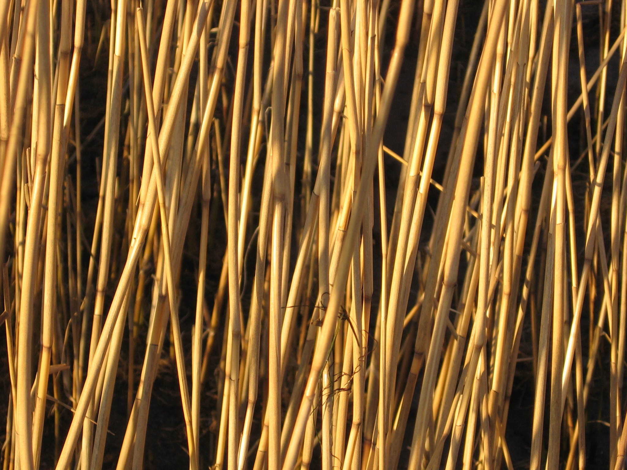 Flora on the beach – stalks of an unidentified grass species